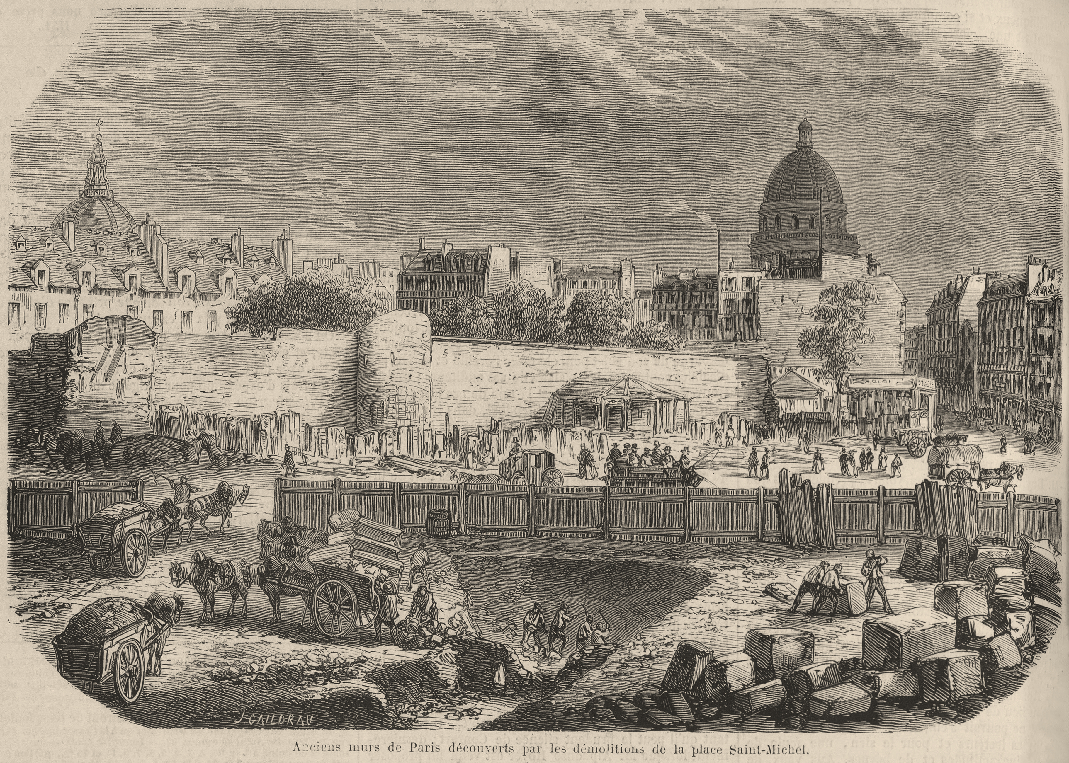 Upon the demolition of the place Saint-Michel in 1860, workers discovered various remains from centuries past, including the walls of an old monastery, as depicted here